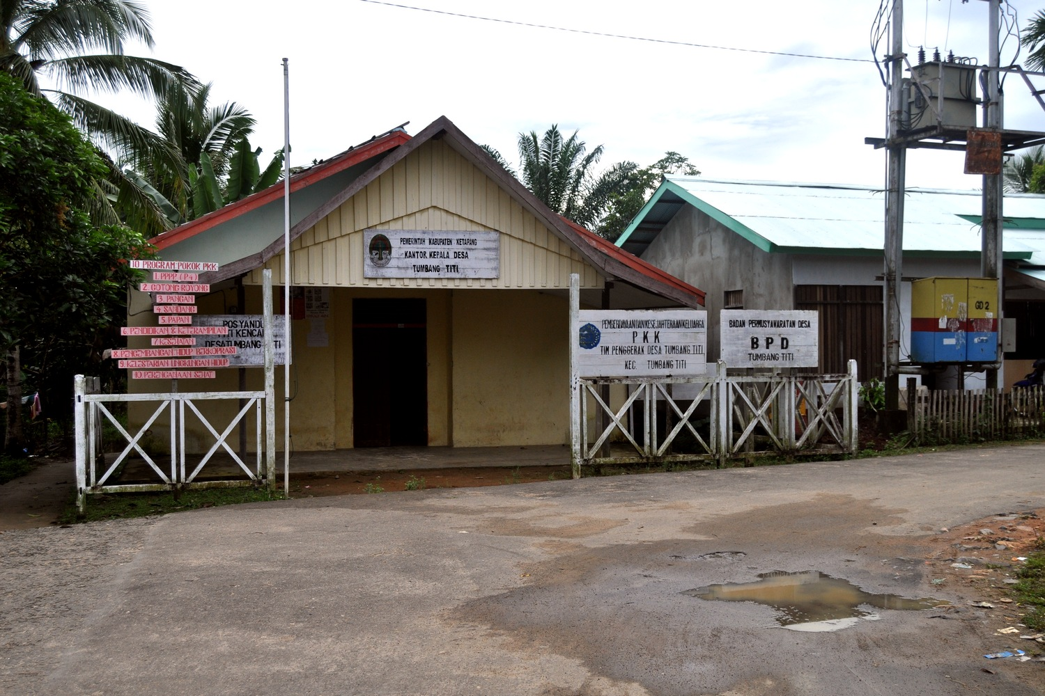 Tumbang Titi Village office, West Kalimantan, Indonesia